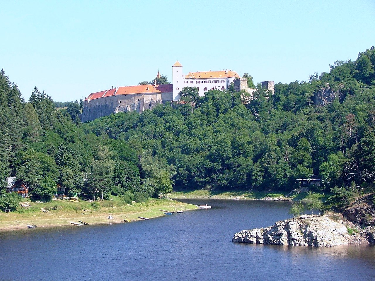 Bítov Castle above the Vranov Reservoir, Czech Republic.